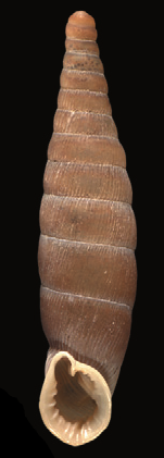 Photo of an apertural view of the shell of Bulgarica denticulata (Olivier, 1801), syntype MNHN (coll. Olivier), “Ghemlek”. Height of the shell is 14.7 mm.